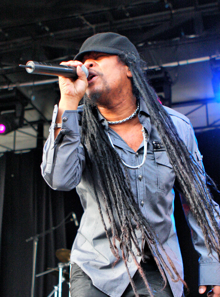 Maxi Priest performs at Raggamuffin Music Festival 2011